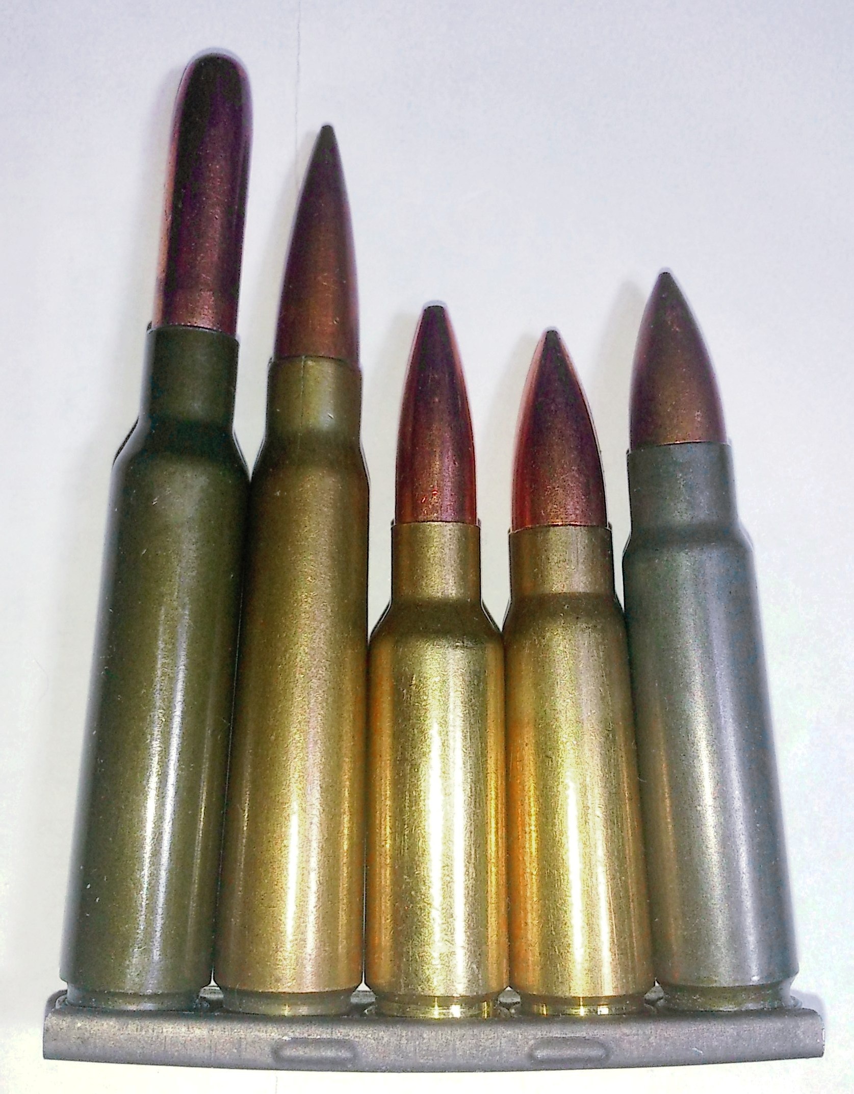 Comparison of 6.5 Carcano, .276 Pedersen, 6.5 Grendel, 7.62x39mm, 7.62x45mm